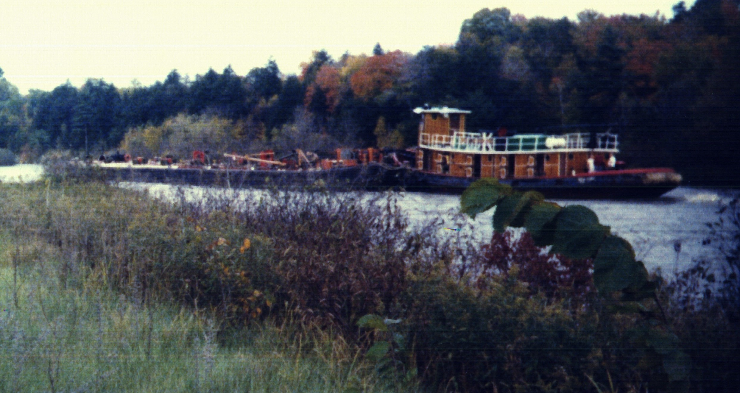 Tug and barge on the Champlain Canal. Taken by User:Mwanner, in the 1980s.